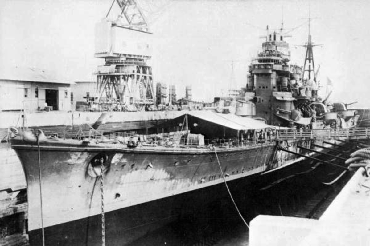 Japanese Heavy Cruiser "Ashigara" in dry dock, Singapore.